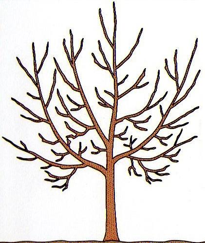 Please somebody write the name in english! - Hemispherical or spherical crown ?